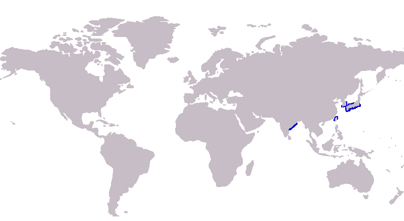 Known distribution of the small scale whiting, Sillago parvisquamis. Map base from